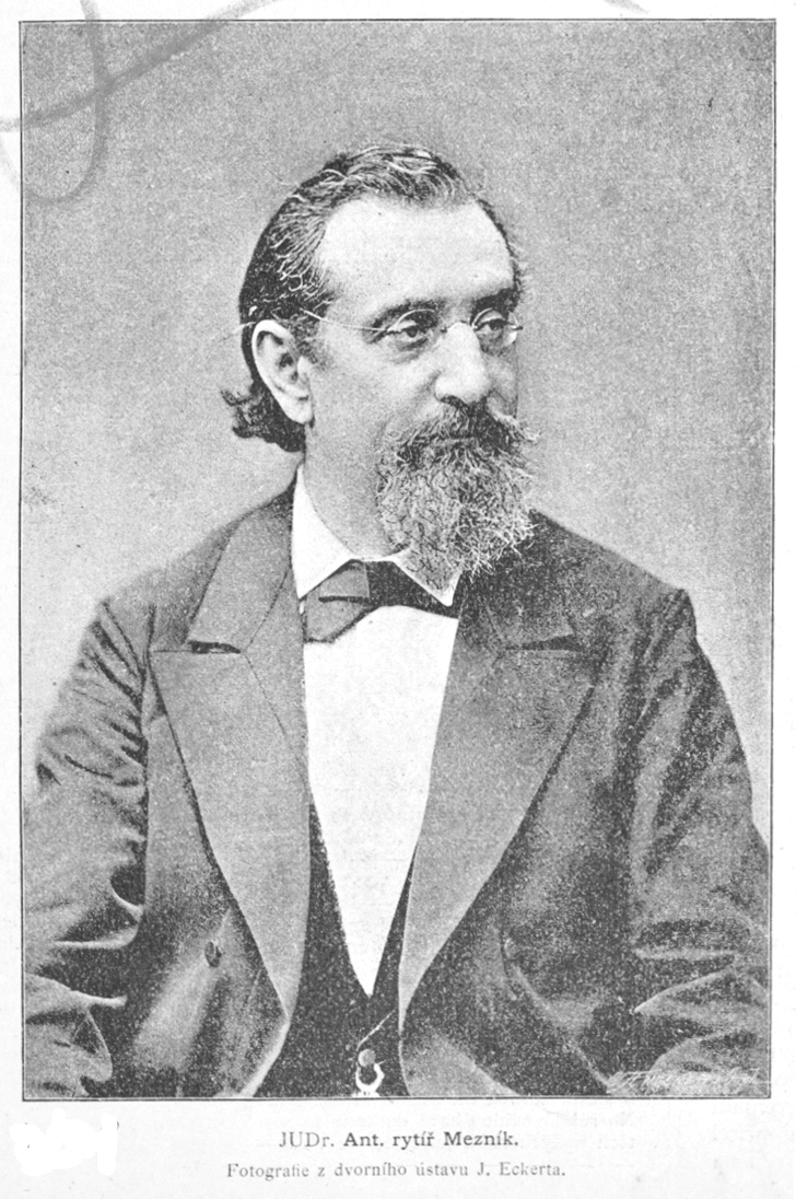 Portrait of Antonín Mezník (1831-1907), Czech lawyer and politician from Moravia.